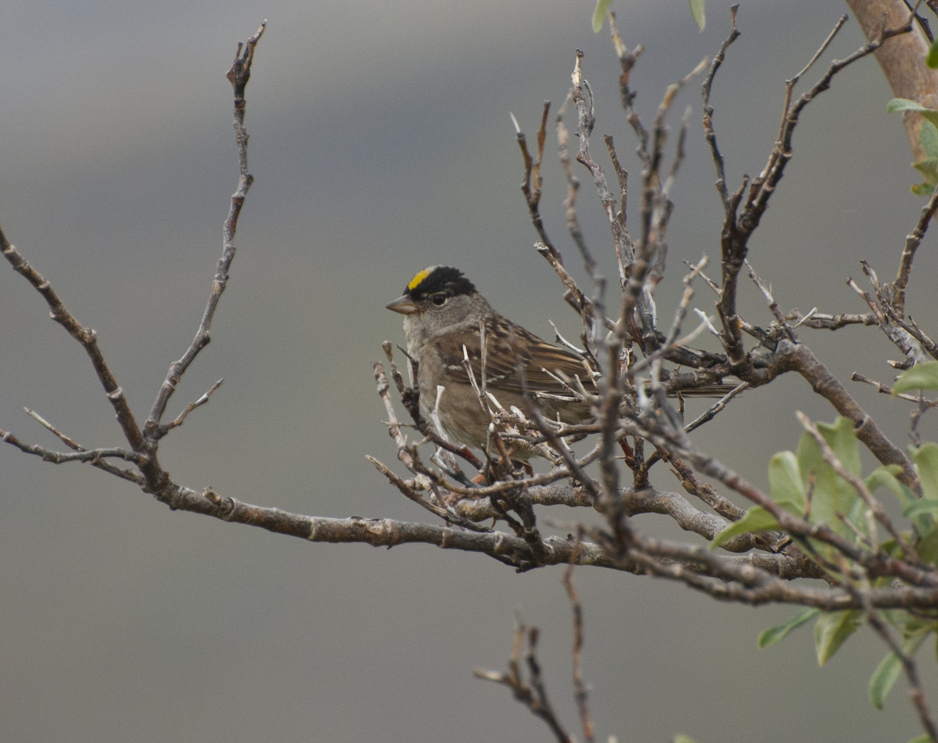 Although it is one of the least known songbirds, the golden-crowned sparrow is commonly seen and heard on the Alaskan tundra during the summer. Males sport a bright yellow streak on their forehead, while females are more drab and streaked with brown.